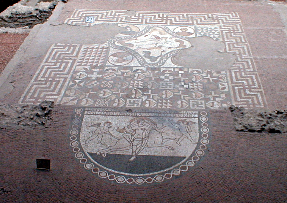 Image of the main moasaic in Lullingstone Villa, Kent, taken during May 2001.